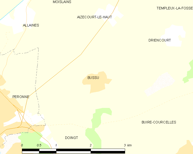 Map of French municipality Bussu